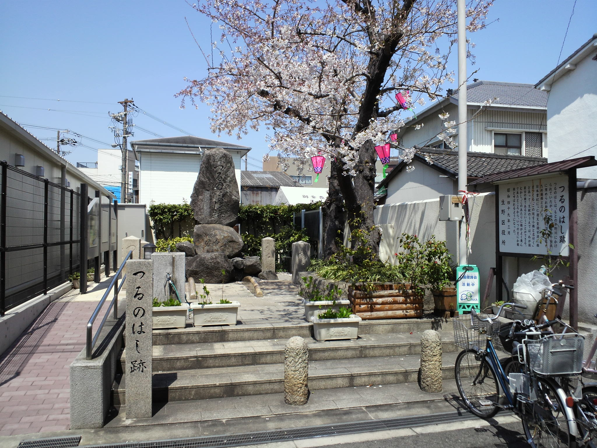 Tsurunohashi ato Park, Ikuno, Osaka